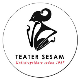 Logotype